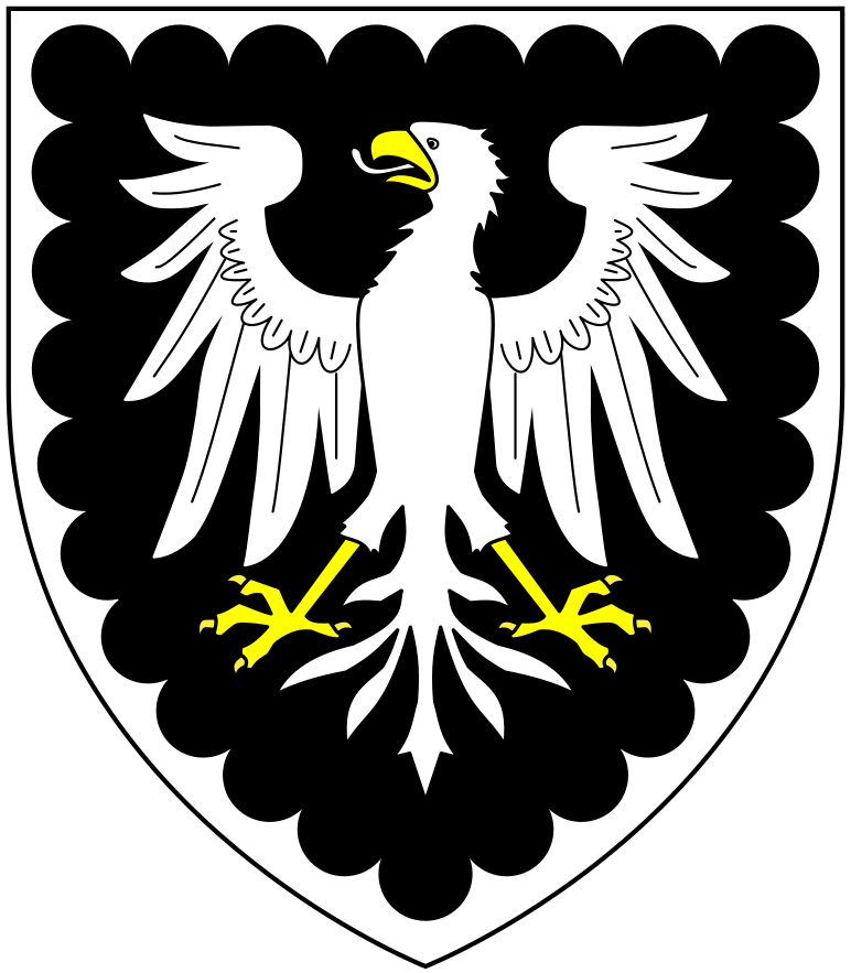 Arms of Palk of Haldon House, Devon: Sable, an eagle displayed argent beaked and legged or a bordure engrailed of the second. On 14 November 1760 Robert Palk (later Sir Robert Palk, 1st Baronet) received a grant of arms and adopted as his coat of arms: Sable, an eagle displayed argent beaked and legged or a bordure engrailed of the second with crest: A semi-terrestrial globe of the northern hemisphere with an eagle rising from it supported by two Asian Indians in loincloths and turbans.(Berry, William, Encyclopaedia Heraldica, Or Complete Dictionary of Heraldry, Volume 2 [1]) His motto was: Deo Ducente ("With God Guiding")